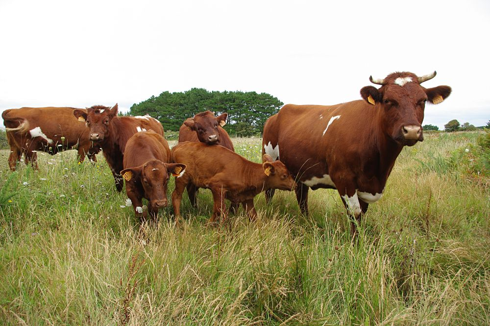 Armorican cattles